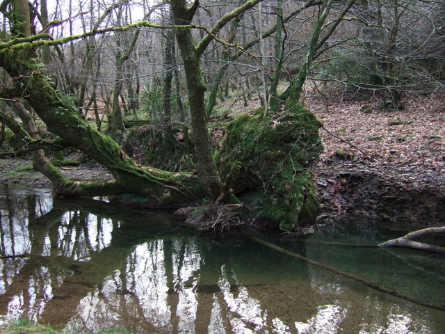 Fallen tree in River Burn Immediately after the river has crossed the disused Okehampton - Tavistock railway lines (no bridge). The river is flowing to the left (southeast).